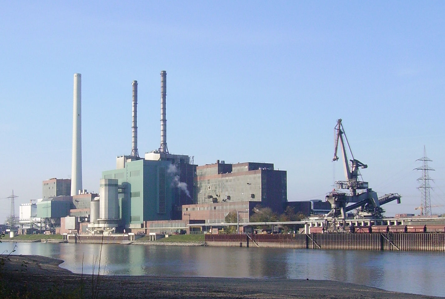 Mannheim in Germany at the Rhine river